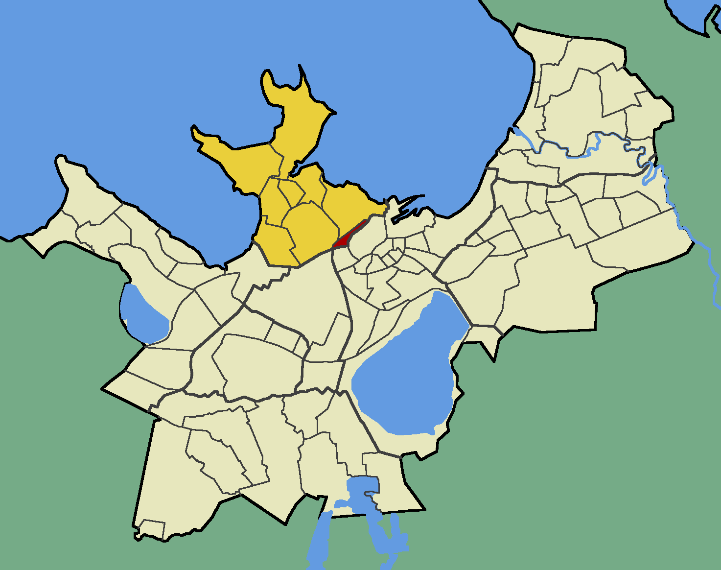 Map of Tallinn (Estonia) with borders of the quarters, Põhja-Tallinn district and Kelmiküla quarter emphasised